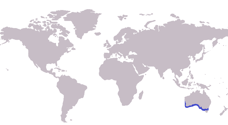 Distribution of the Sillaginodes punctatus